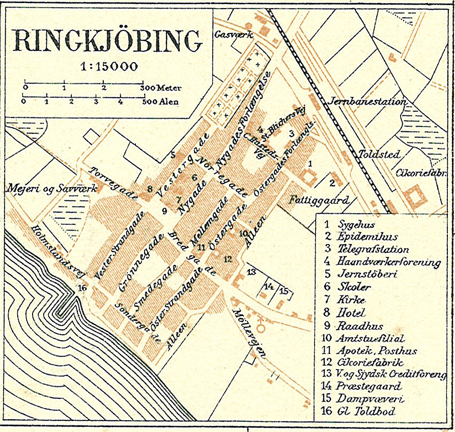 Map of the southern part of Ringkøbing County in Denmark